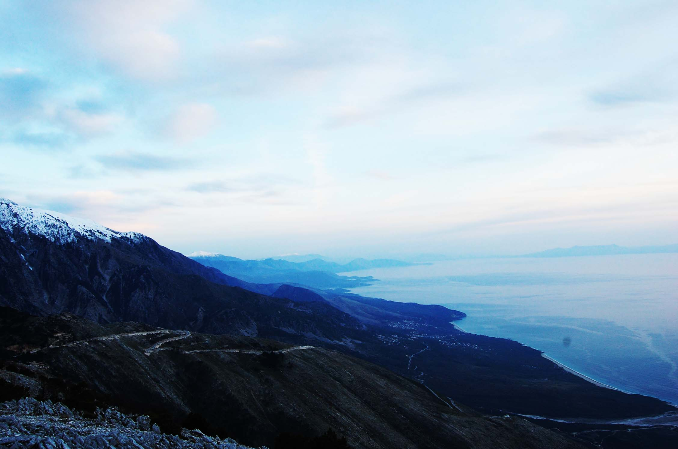 Albanian Riviera in winter